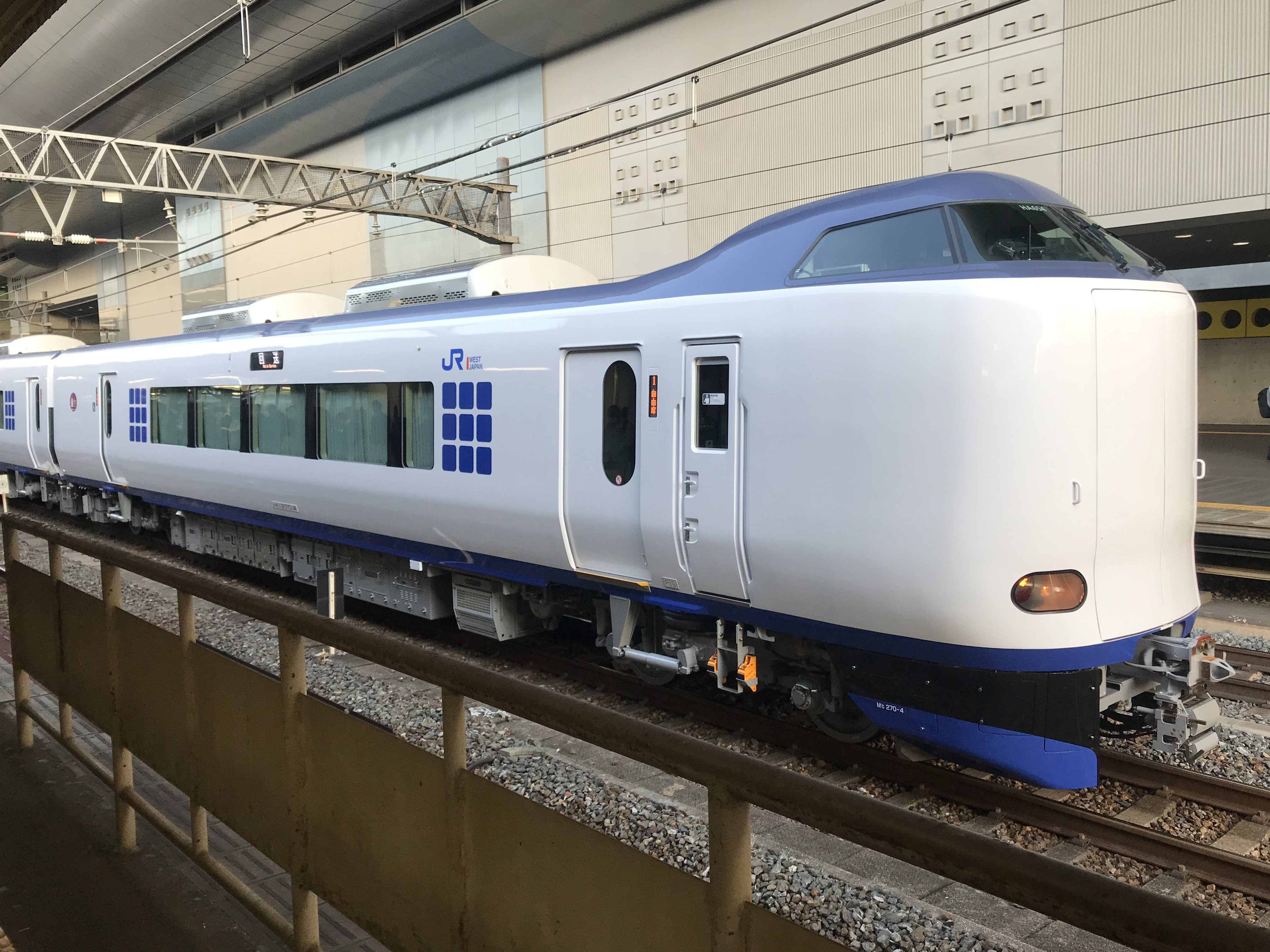 JR West KUMOHA (Driving Motor Car)270-4 at Kyoto station